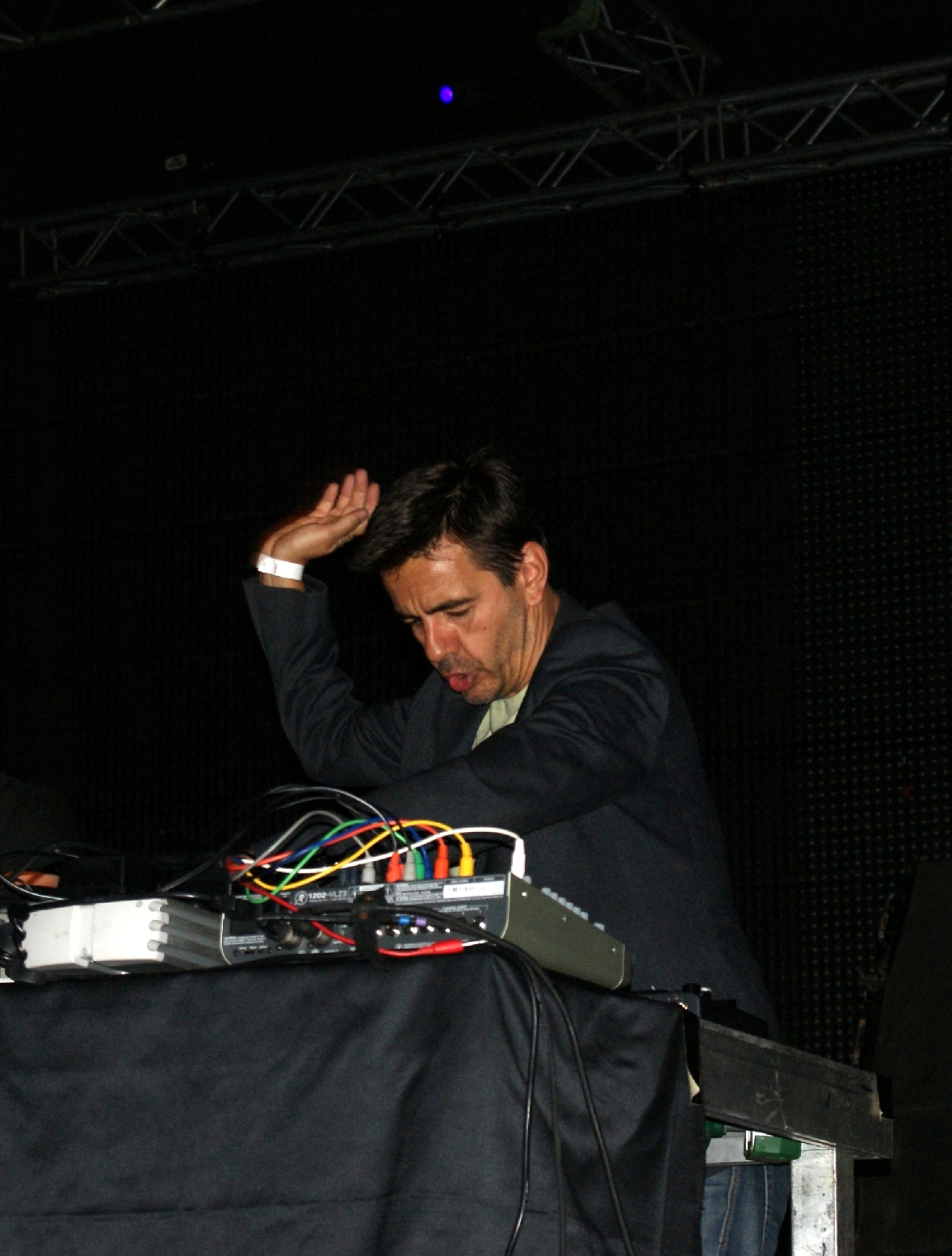 Audioriver Festival (6-8.08.2010, Płock, Poland) Laurent Garnier (Main Stage)